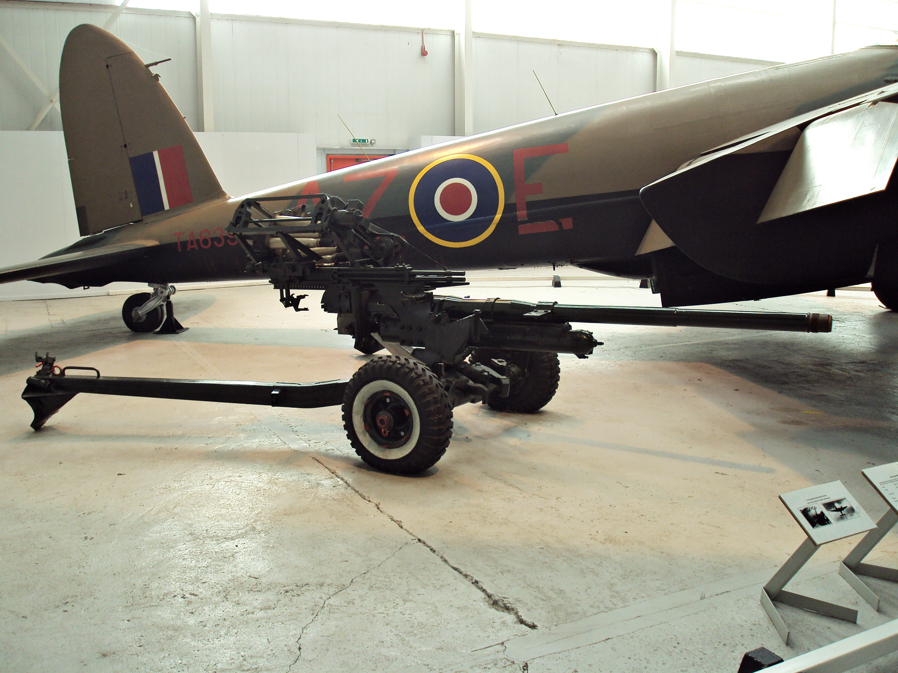 Anti-aircraft gun. Photo taken at the RAF Museum Cosford, Shropshire, England.